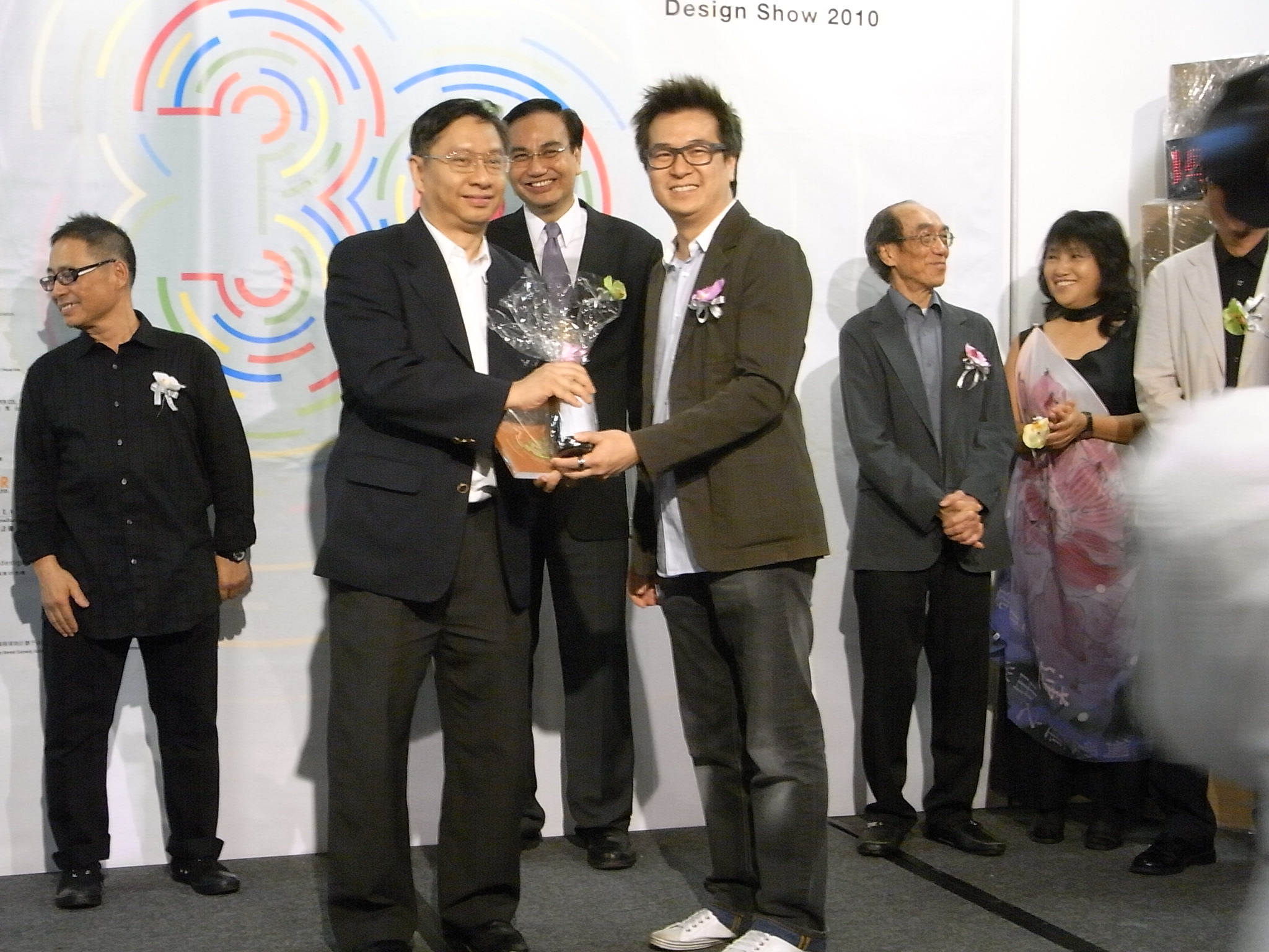 中環6月25日 香港正形設計學校 學生畢業展2010年 劉秀成, 王無邪, 蘇敏儀 & 梁巨廷 出席